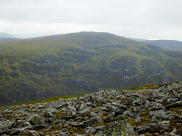 View north west from Beinn a' Chaorainn Taken from near the south top. Beinn Teallach fills the view.